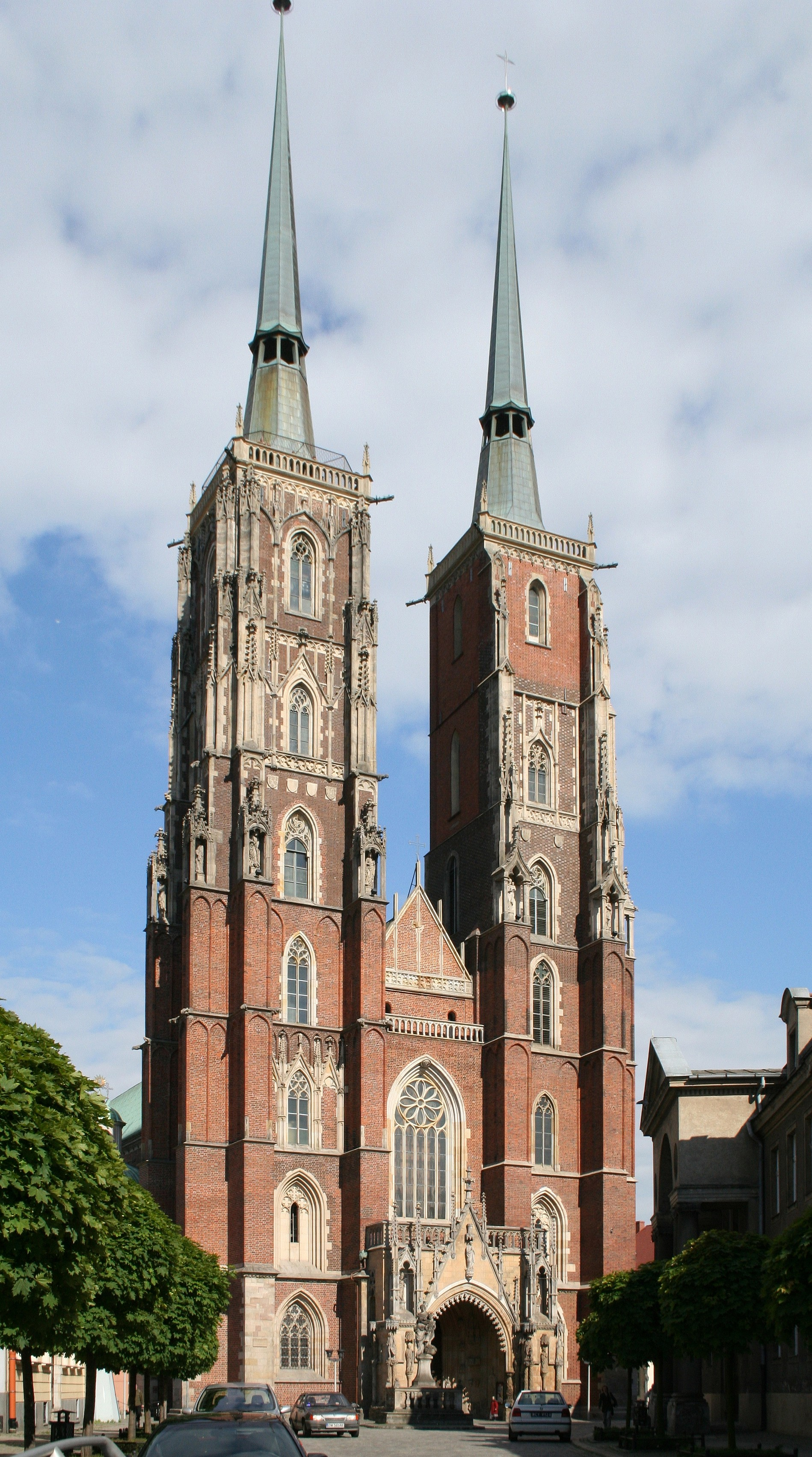 Poland, Wroclaw, Archicathedral